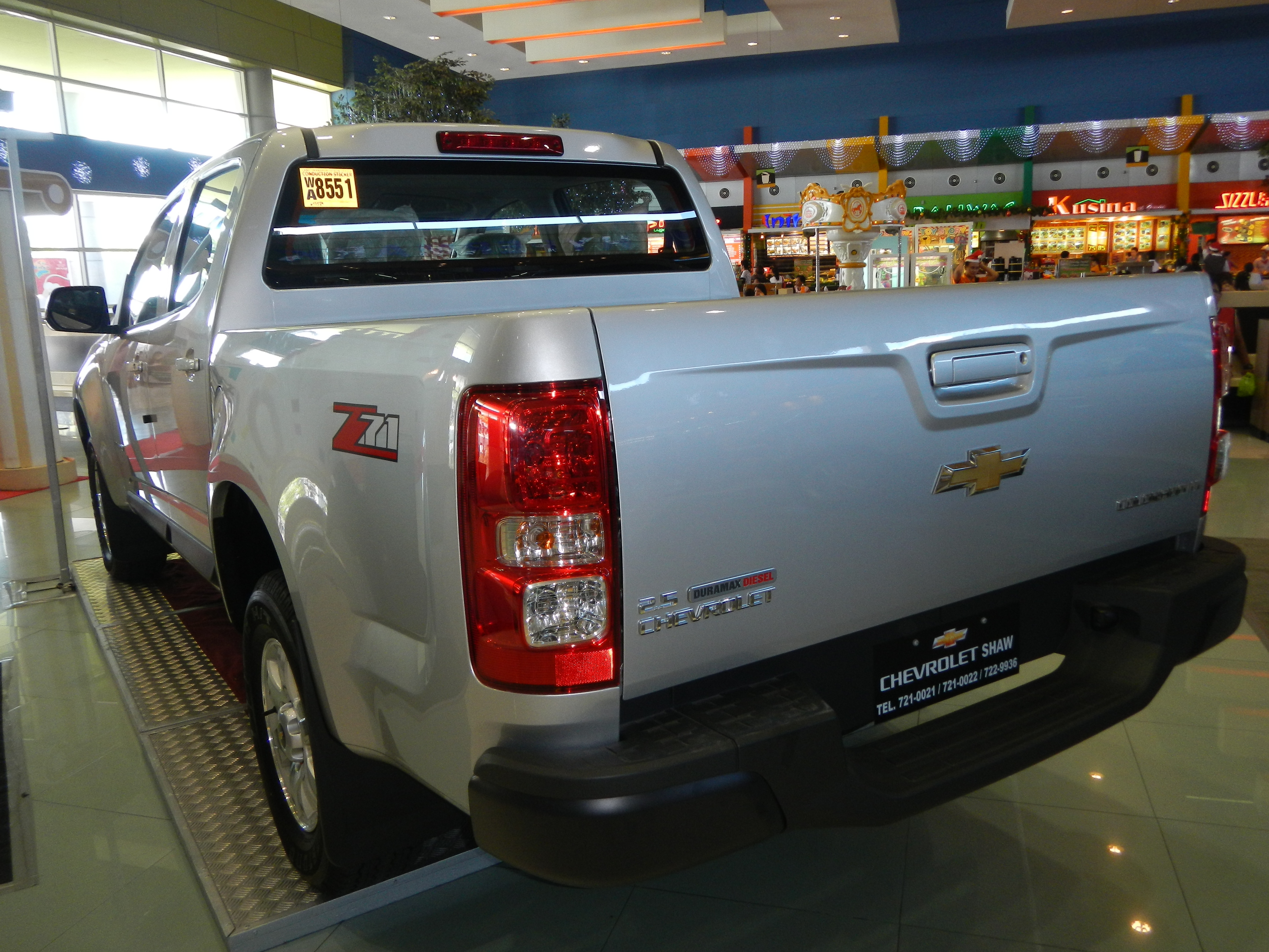 Chevrolet Colorado[1]Duramax Diesel[2], Philippines